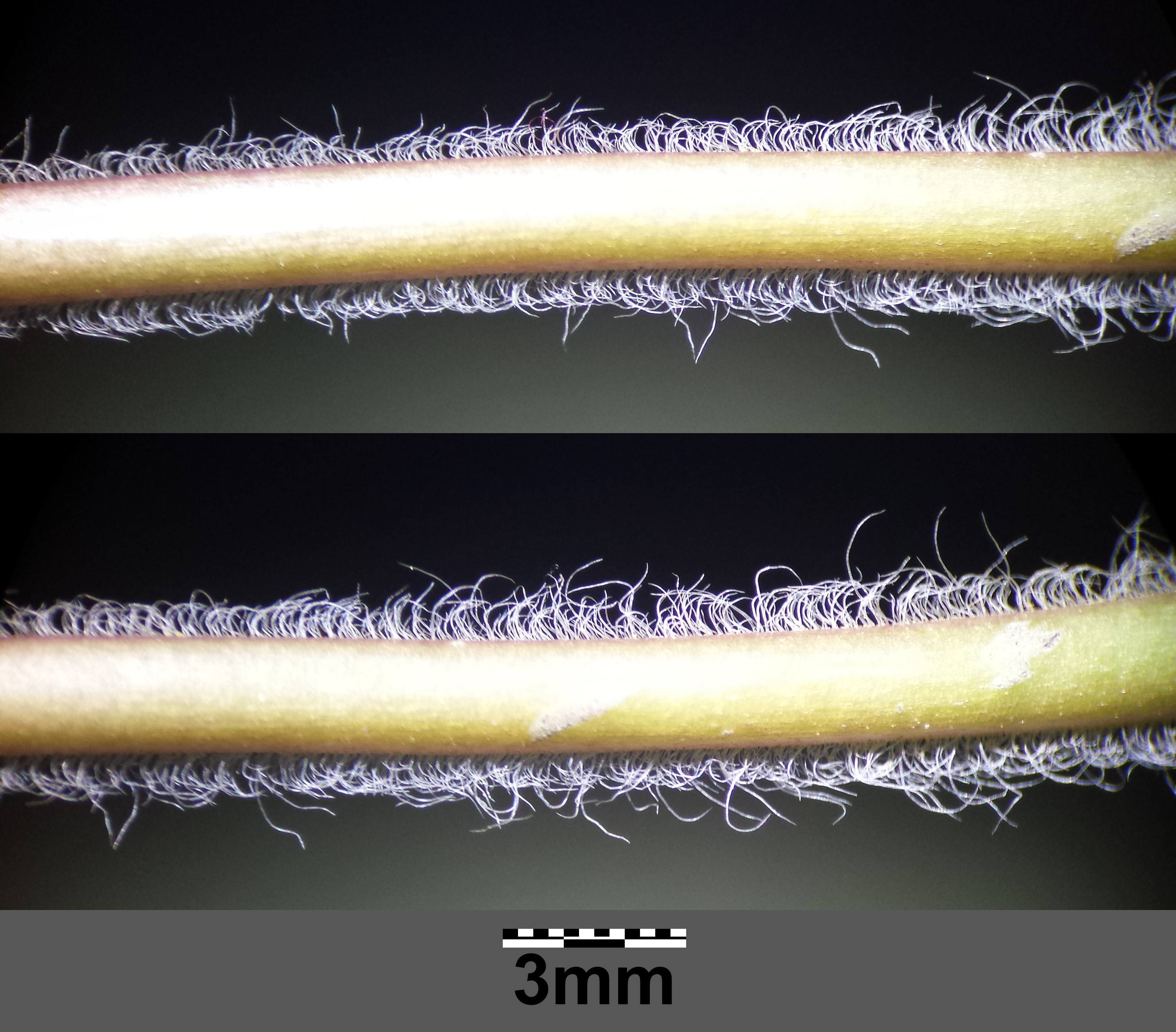 Stipe with lines of hairs Taxonym: Veronica chamaedrys subsp. chamaedrys ss Fischer et al. EfÖLS 2008 ISBN 978-3-85474-187-9 Location: Rohrwald, district Korneuburg, Lower Austria - ca. 250 m a.s.l. Habitat: dedicious forest